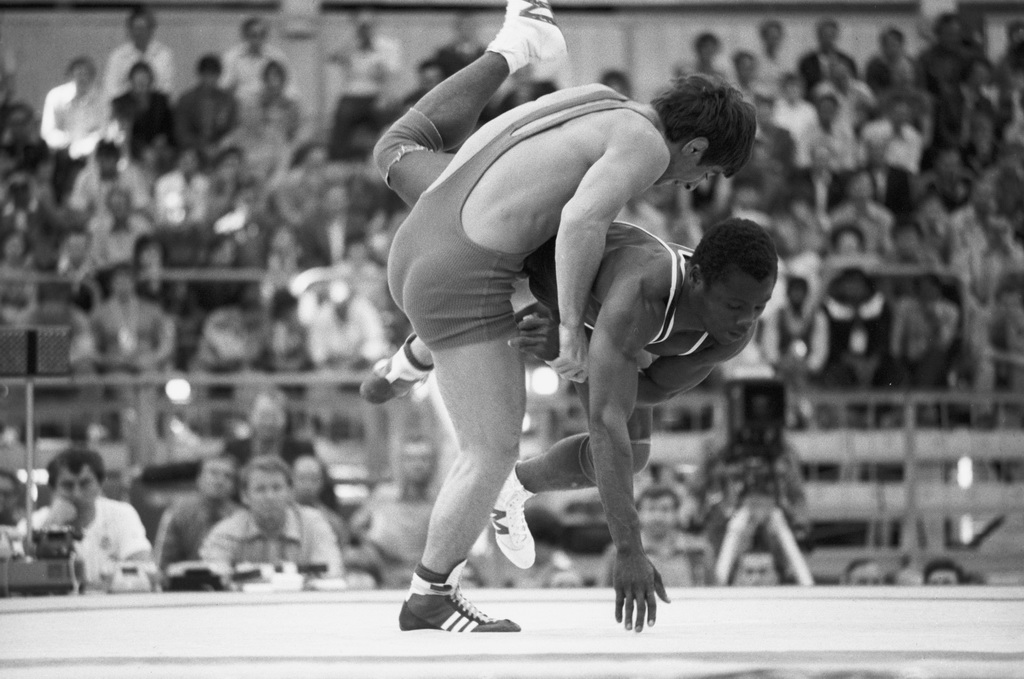 “Magomedgasan Abushev vs. Augustin Atasi”. The 22nd Summer Olympics. A bout between wrestlers Magomedgasan Abushev (USSR), left, gold winner at the 1980 Olympics, and Augustin Atasi (Nigeria), right. Men's Freestyle 62kg competition.